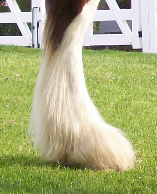 Lower leg of Bay Clydesdale, showing feathers and spats